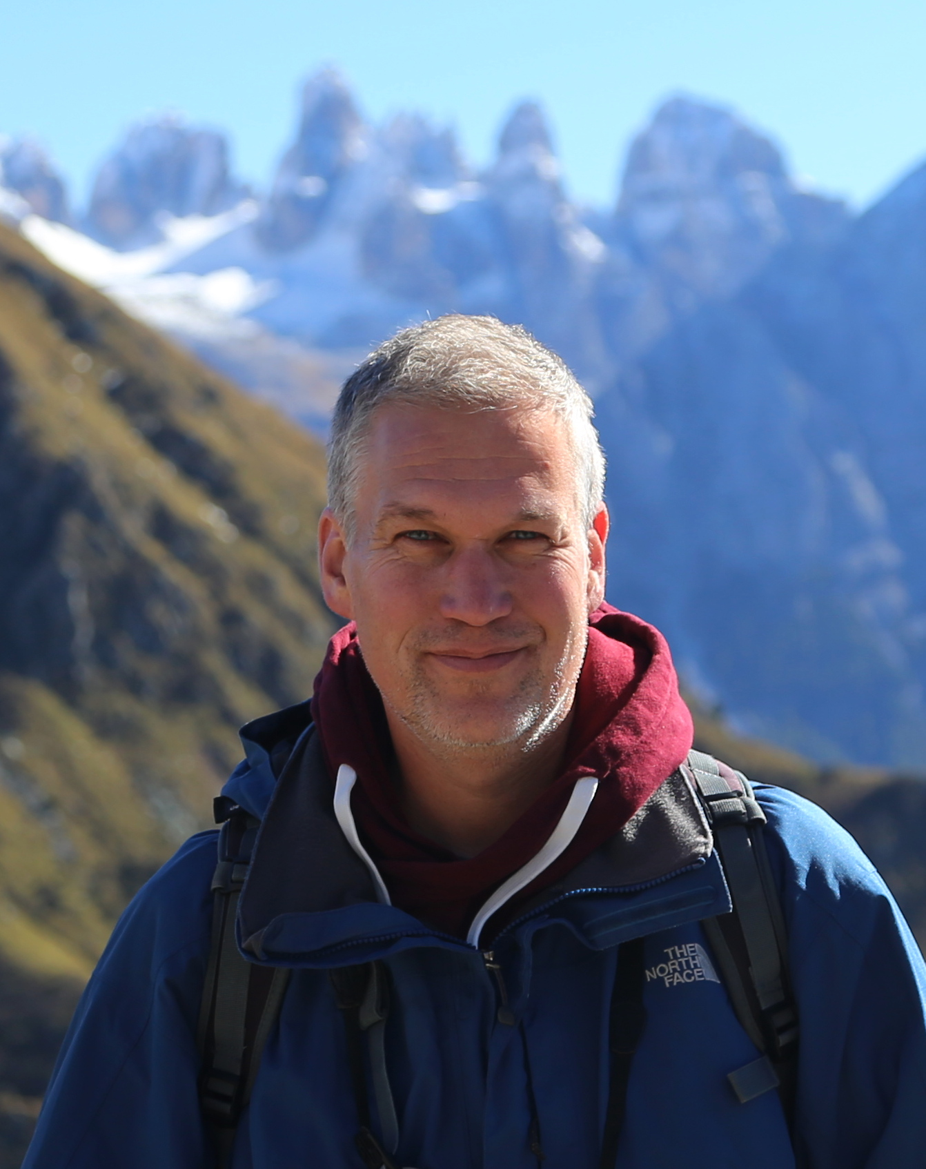 Axel Hochkirch, October 2016